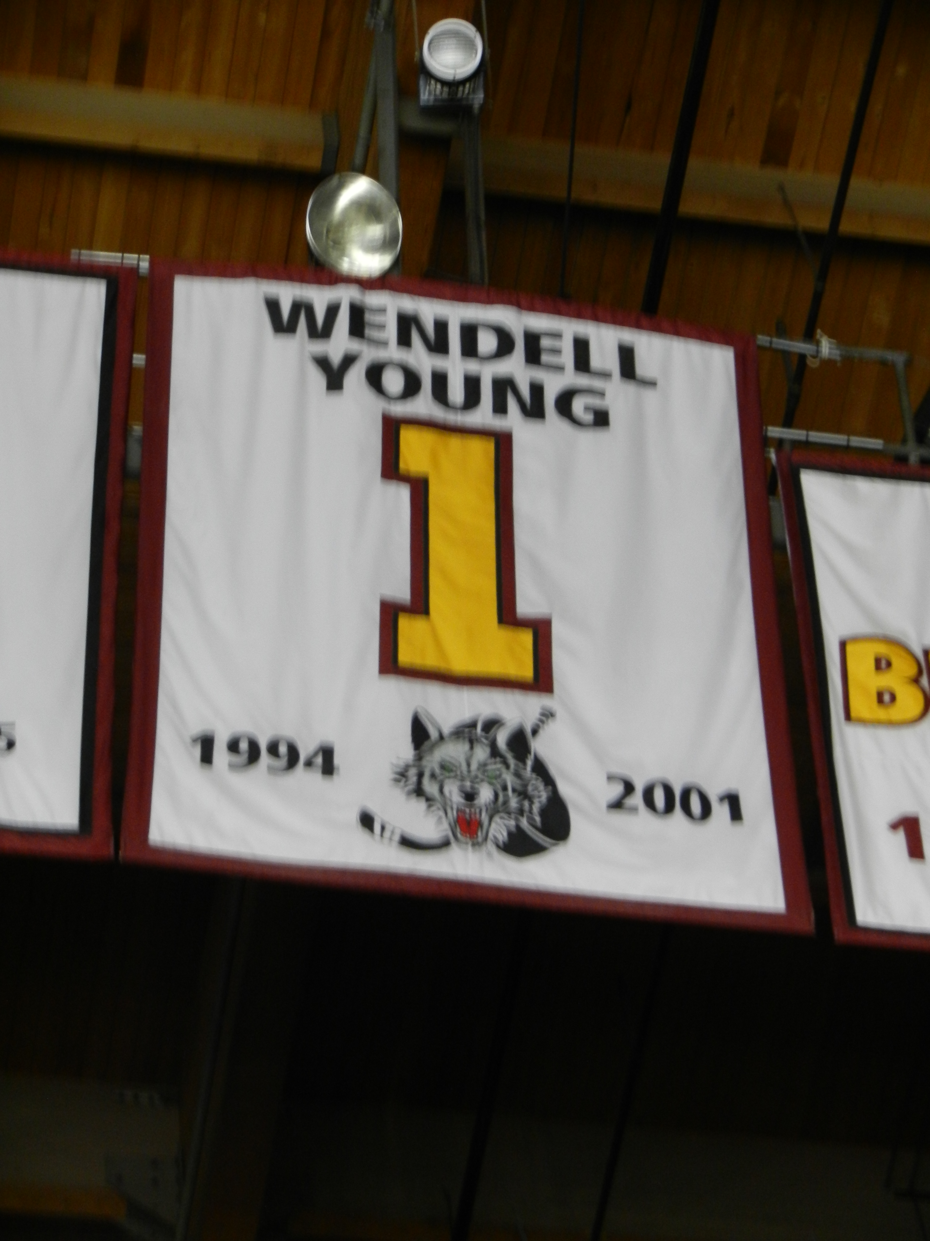 Wendell Young's retired #1 banner hanging in the Allstate arena